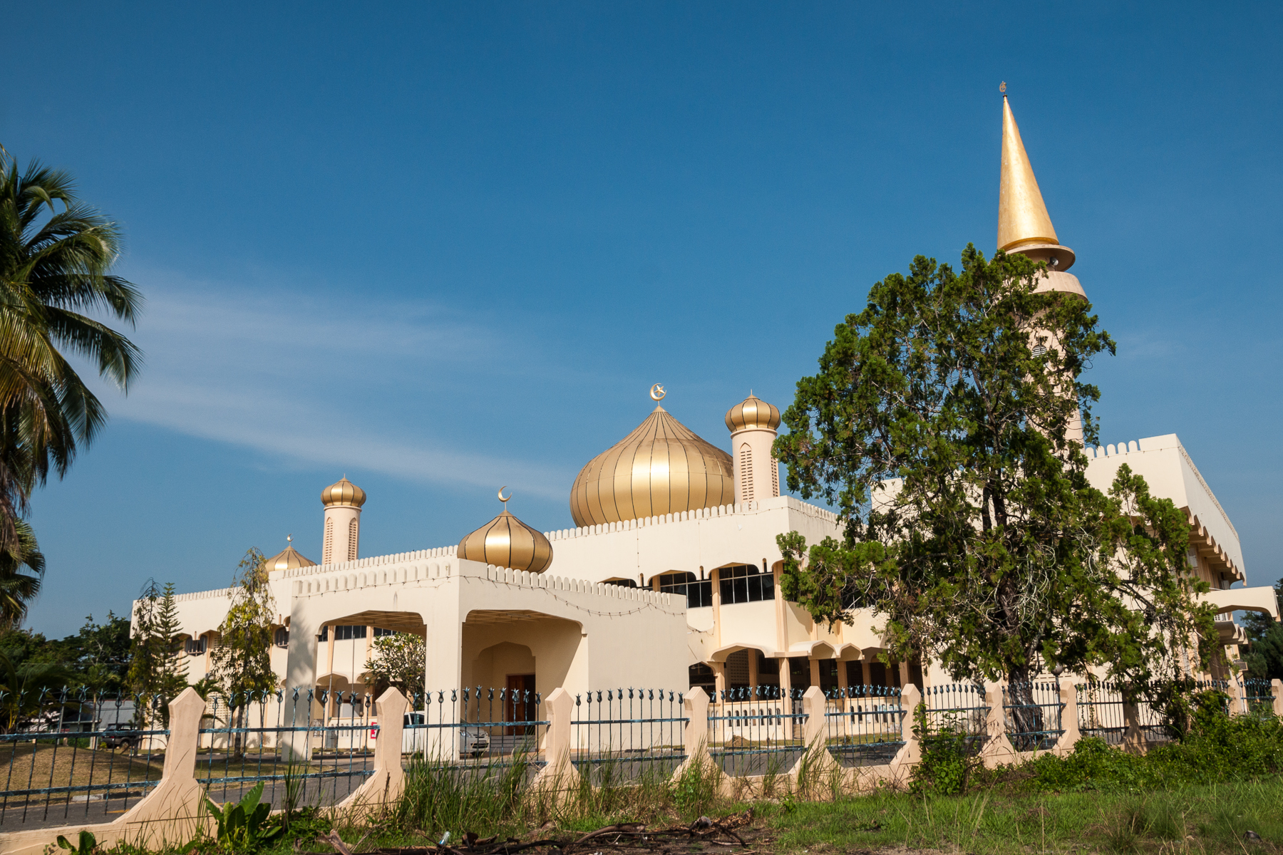 Papar (Sabah): Masjid Daerah Papar (District Mosque)